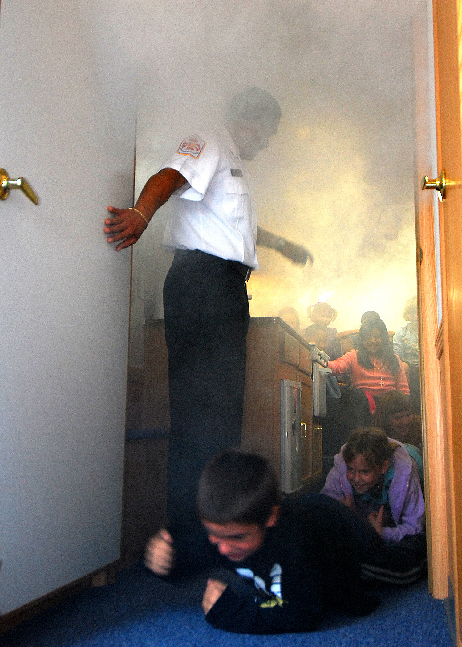 USA fire Inspector Angel Roman leads Naples (Italy) Elementary students through the smoke trailer. 081007-N-4044H-271 NAPLES, Italy (Oct. 7, 2008) Fire Inspector Angel Roman leads Naples Elementary students through the smoke trailer. The trailer provides a real life simulation of a smoky environment and is aimed at teaching the children proper procedures for exiting in a real life fire situation. This simulation is part of Fire Prevention Week. This year's theme is Prevent Home Fires and is aimed at teaching everyone to protect themselves and their homes by following the simple safety procedures explained throughout Fire Prevention Week. — Released (Text by U.S. Navy)